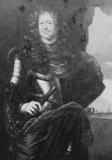 Christoffer Gyllenstierna af Ericsberg